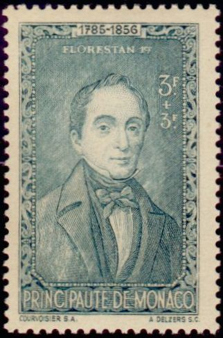 Florestan I of Monaco